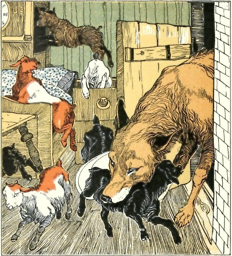 Illustration for the fairy tale "The Wolf and the Seven Young Kids" depicting the wolf attacking the kids once he is let into their home.